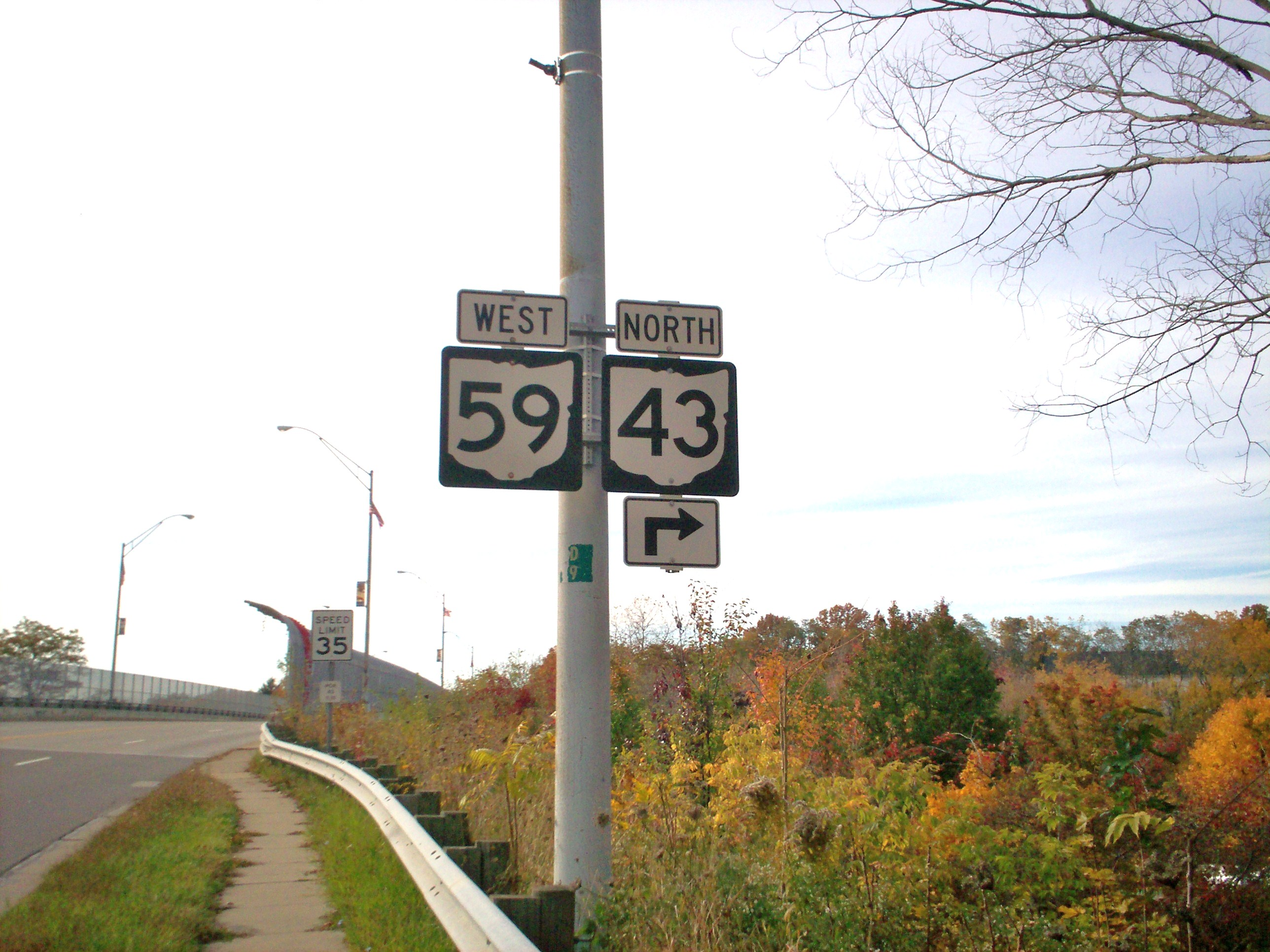 Traffic sign where State Routes 59 and 43 are cosigned on Haymaker Parkway as it crosses the Cuyahoga River in downtown Kent, Ohio.